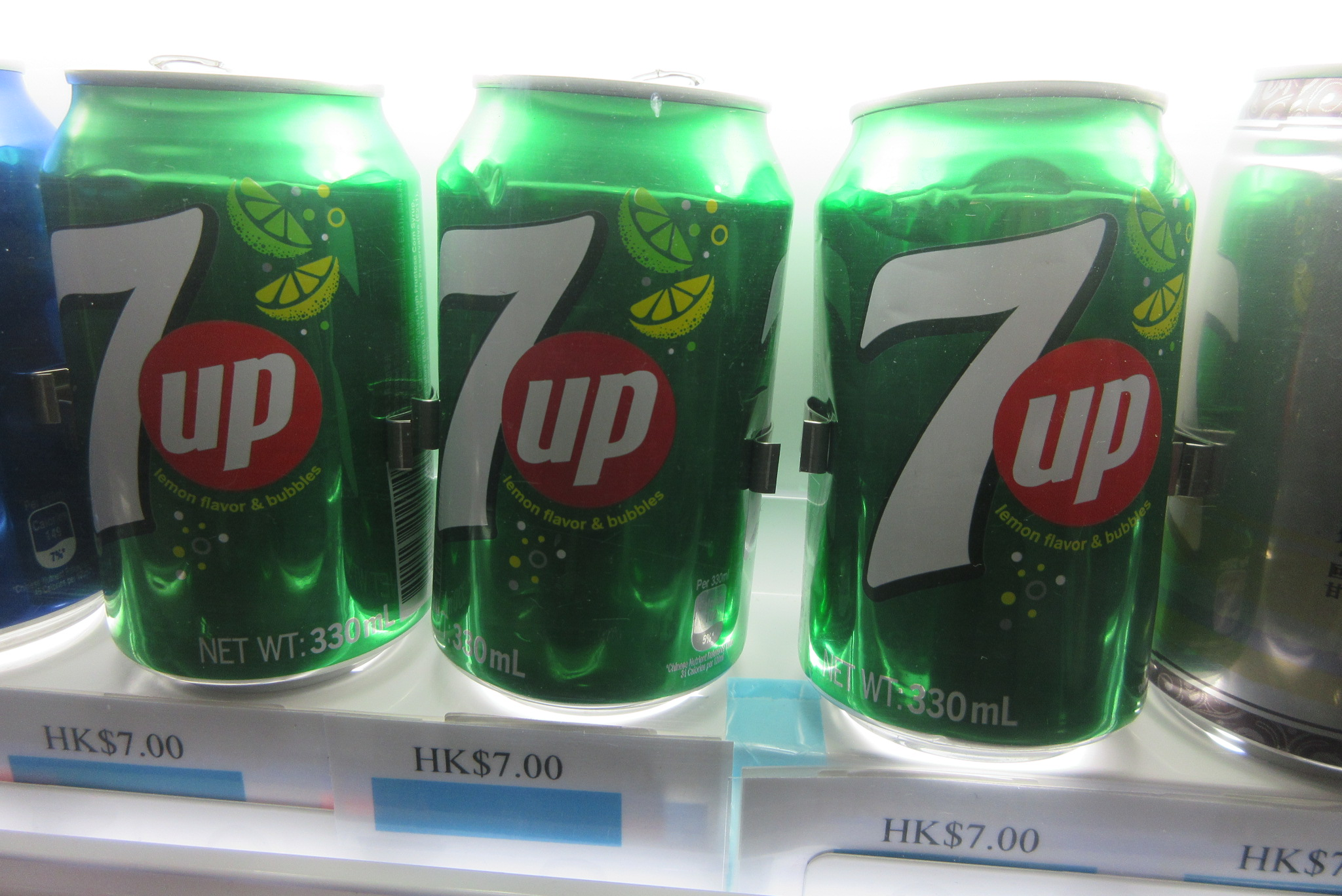 HK Soft drink pre-packed canned product July 2017